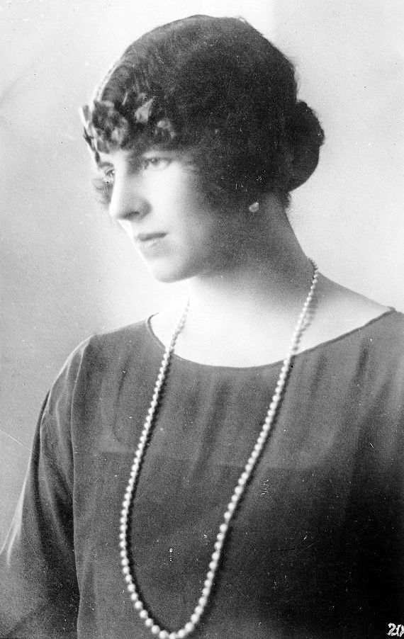 Queen Helen of Romania